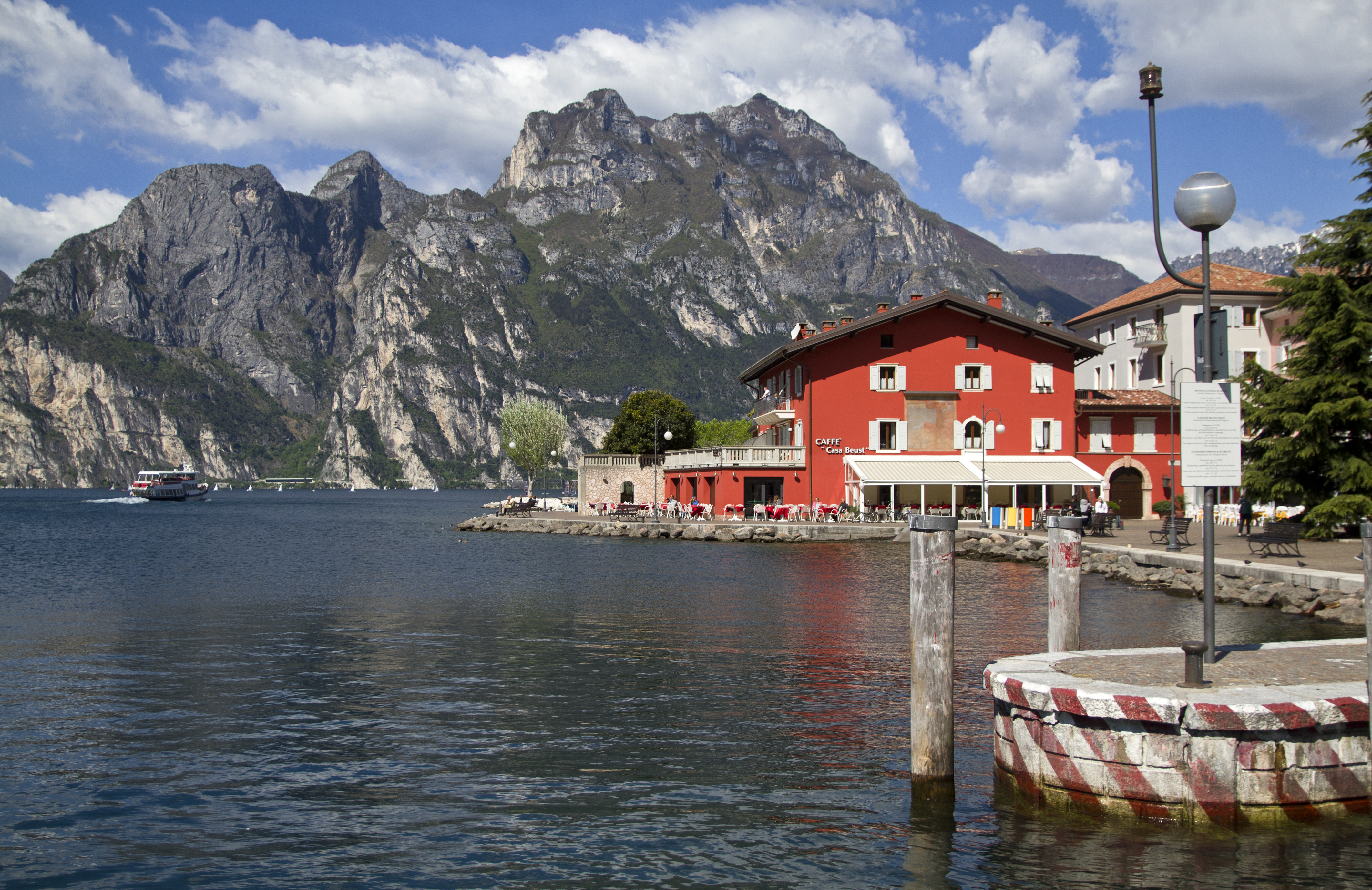 38069 Torbole TN, Italy